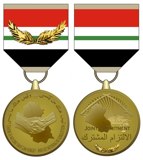 The proposed medal awarded to service members by Iraq for service within their borders 2003-2011.